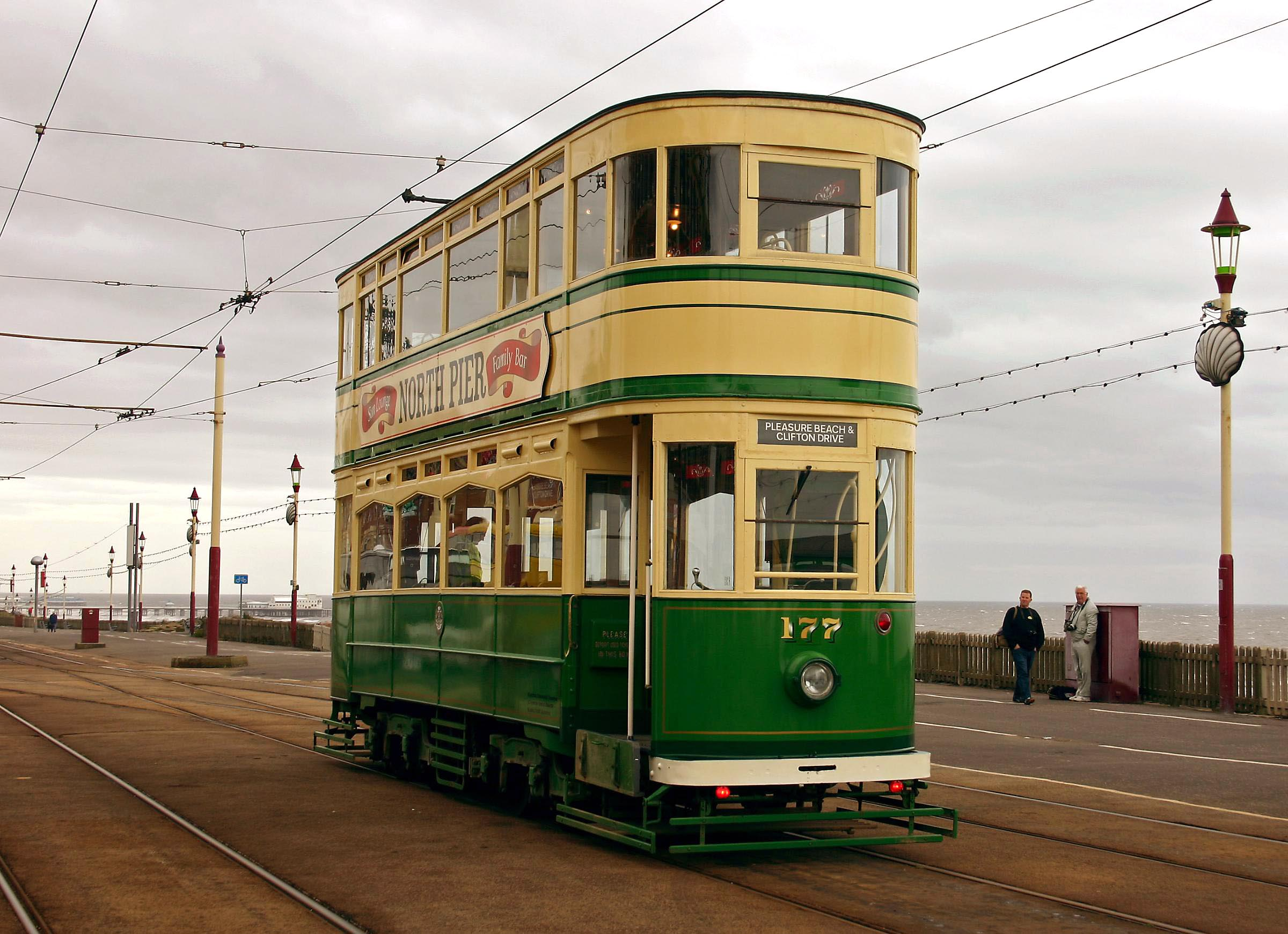 Double deck tram at Bispham